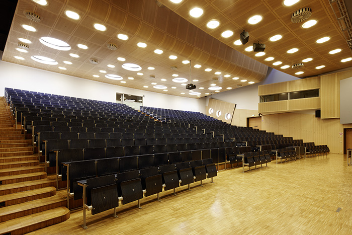 Alpen-Adria-Universität Klagenfurt: Lecture hall A , HS A Foto Copyright by Johannes Puch